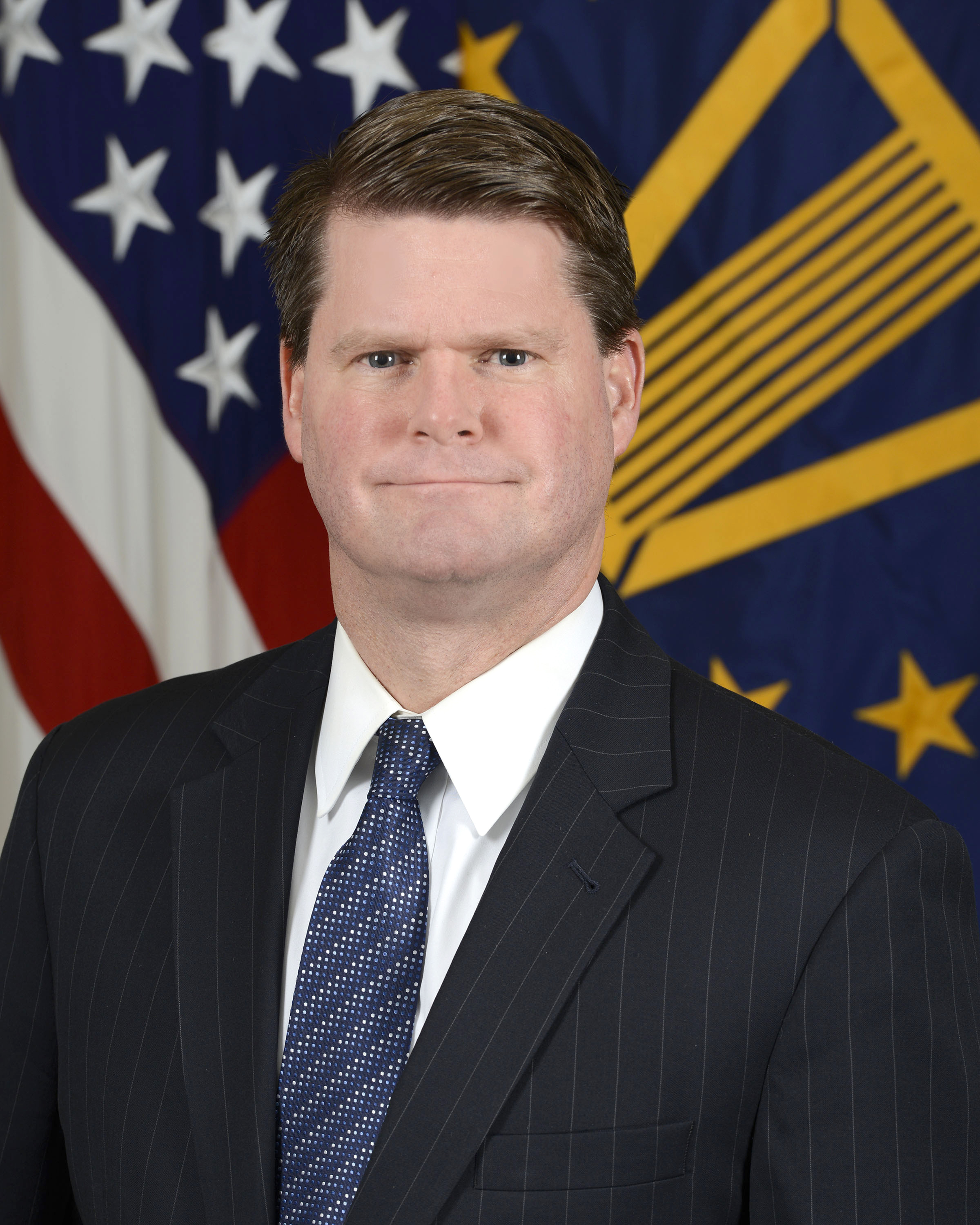 Randall G. Schriver, Assistant Secretary of Defense for Asia and Pacific Security Affairs, poses for his official portrait in the Army portrait studio at the Pentagon in Arlington, Va., Jan 4, 2018. (U.S. Army photo by Monica King)